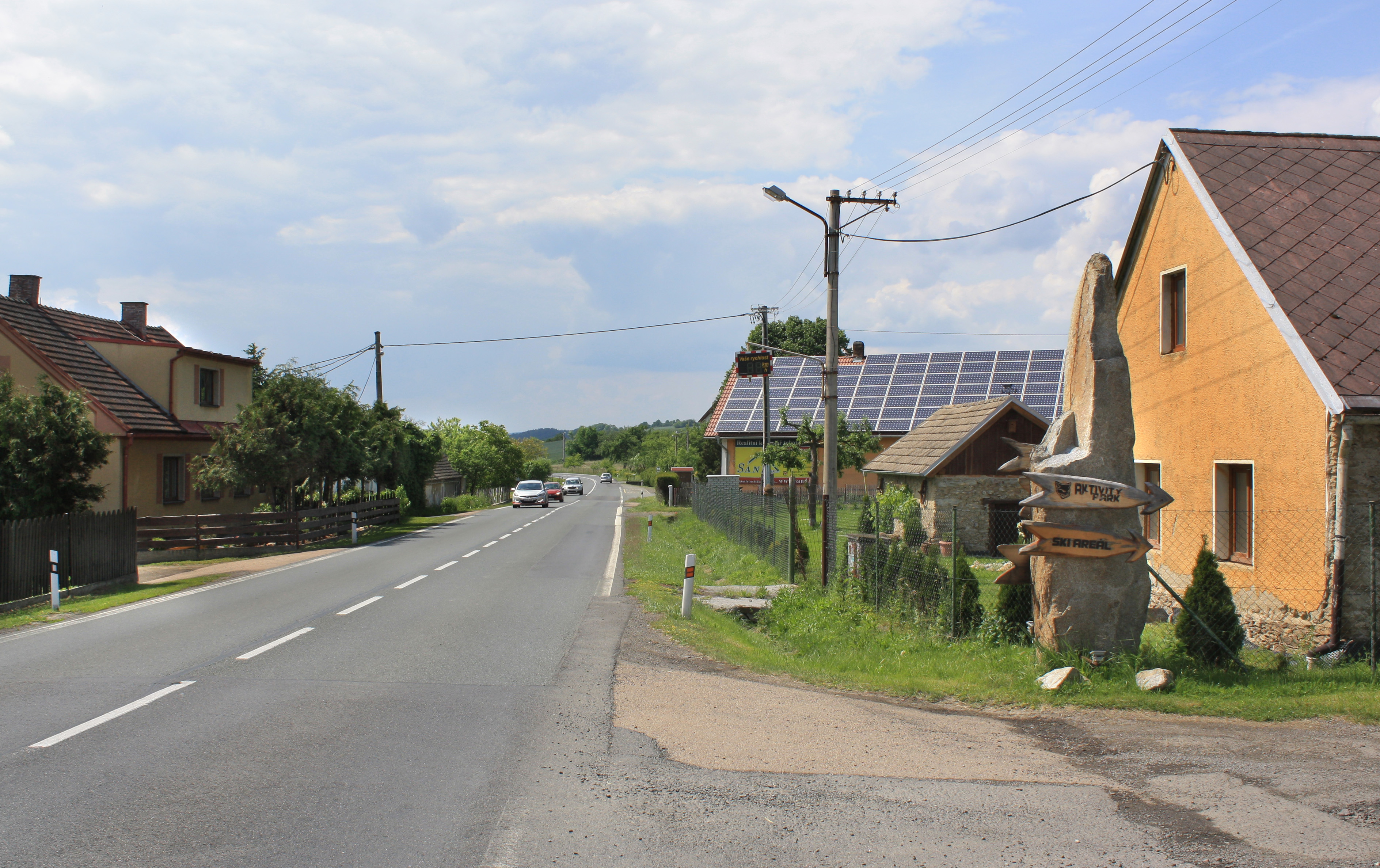 Road No. 22 in Kocourov, part of Mochtín, Czech Republic